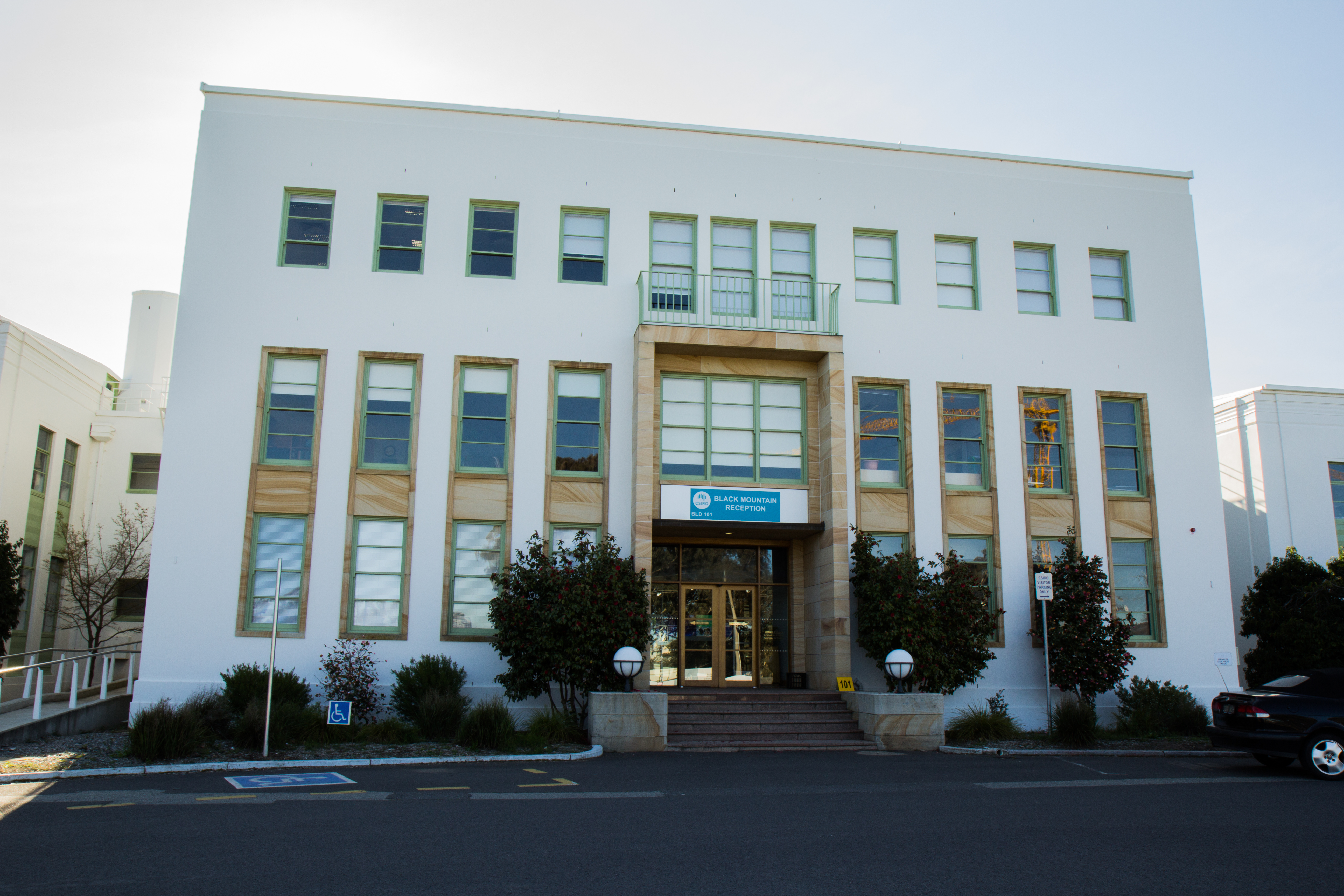 CSIRO (Commonwealth Scientific and Industrial Research Organisation) Main Entomology Building located in Acton, ACT, Australia. This section is the Central Block which is the primary entrance to the building. Photo taken 17 September 2017.